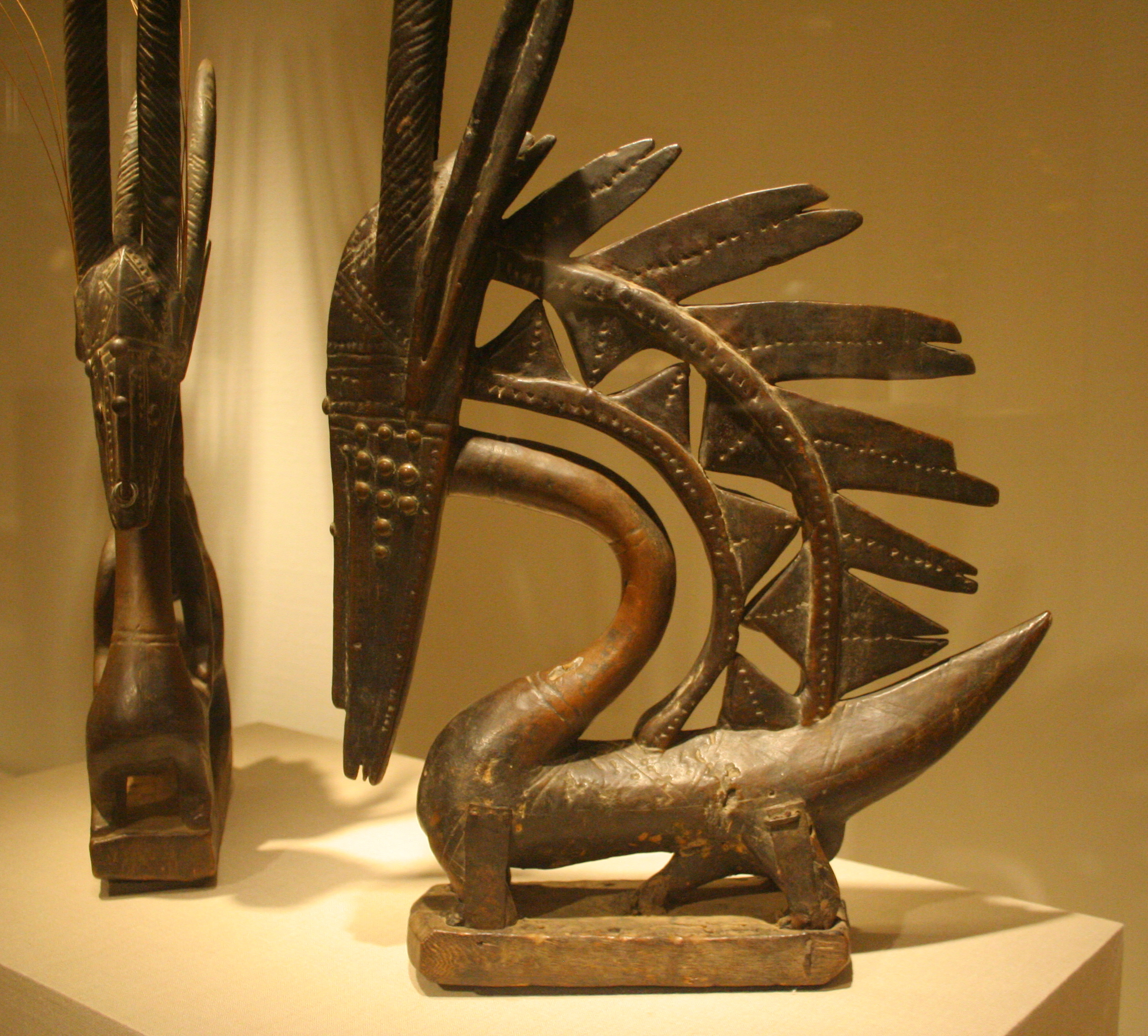 Two Bambara Chiwara headpieces (masks) at the Art Institute of Chicago. Female (left) and Male.